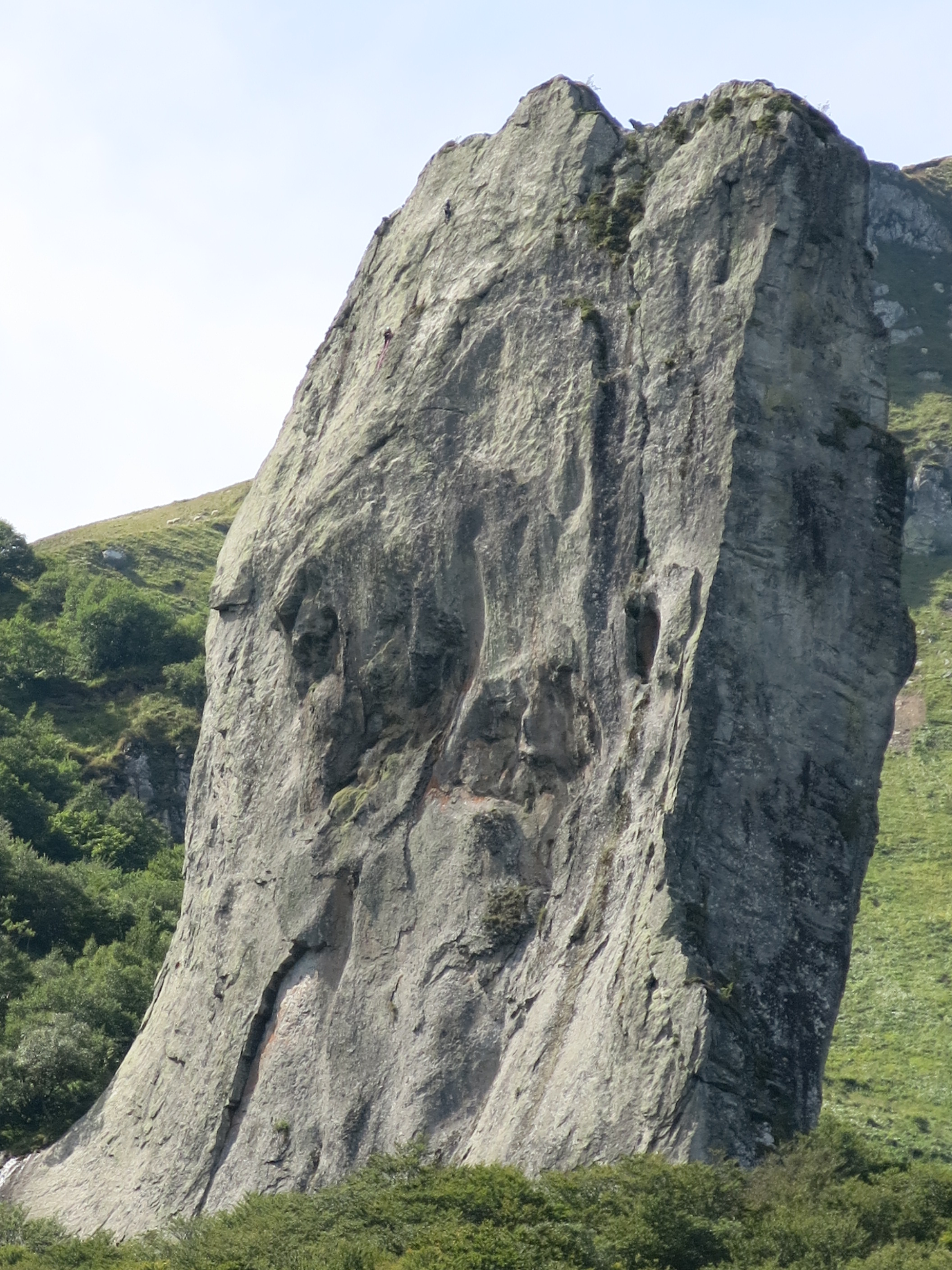 The dent de la Rancune (=Tooth of the spite) in Chaudefour valley (Puy-de-Dôme, France) with alpinists.